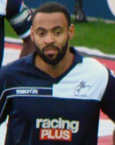 29/12/12 Cardiff v Millwall, Championship, Cardiff City Stadium, Cardiff, Wales